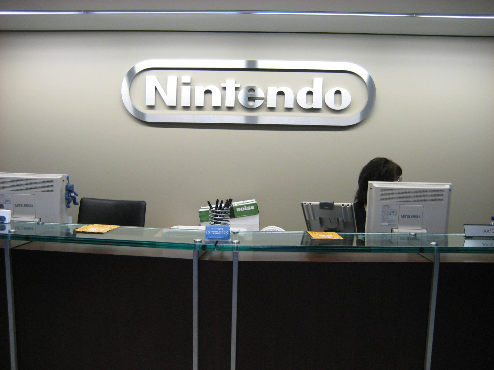 Nintendo's front desk. If I remember correctly, Reggie's office is down the right hallway from here o_o! The only thing I regret about this trip is that I wasn't able to take a photo with him. He came in to do a presentation for us but had no time to take a photo